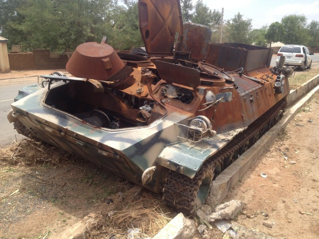 MT-LB of the Nigerian Army, captured by Boko Haram, destroyed during military operations in March 2015. Near Marrabara, Adamawa State, May 2015